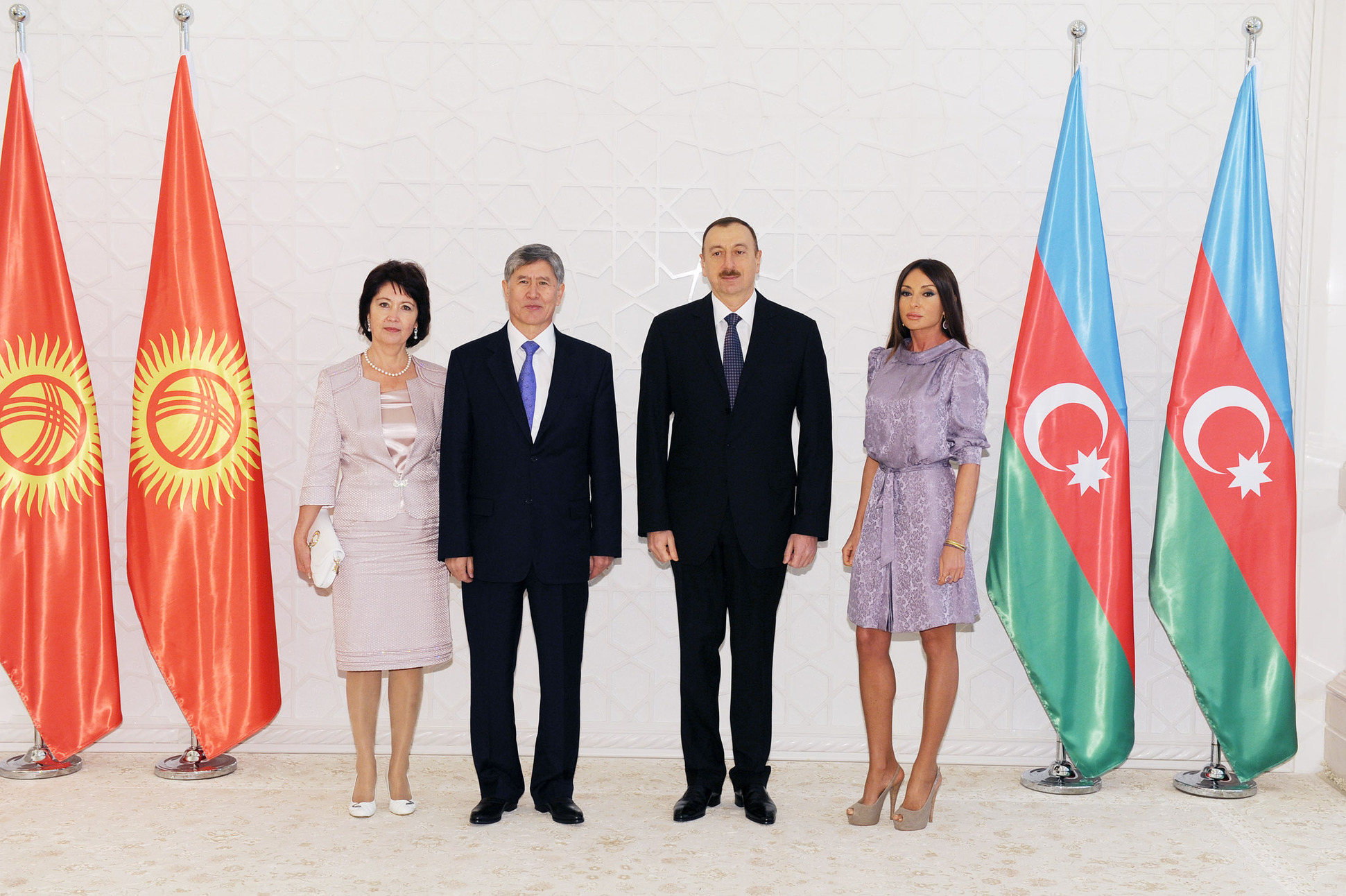 Official meeting ceremony of President of Kyrgyzstan Almazbeк Atambayev was held